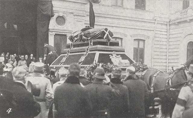 A photograph of the casket of Princess Marie.